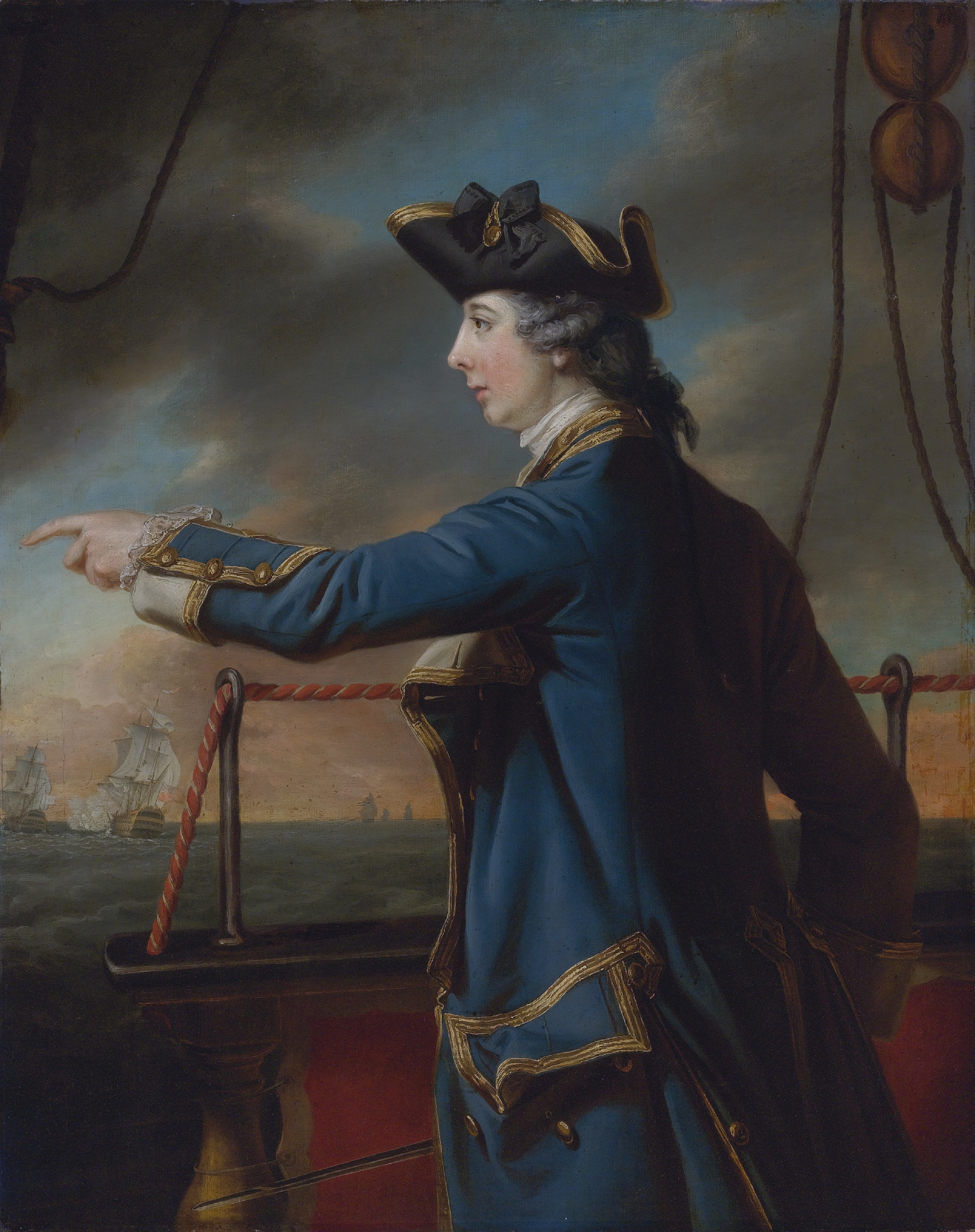 Edward Knowles (1742-1762), captain of the HMS Peregrine oil on canvas 127 x 100.3 cm